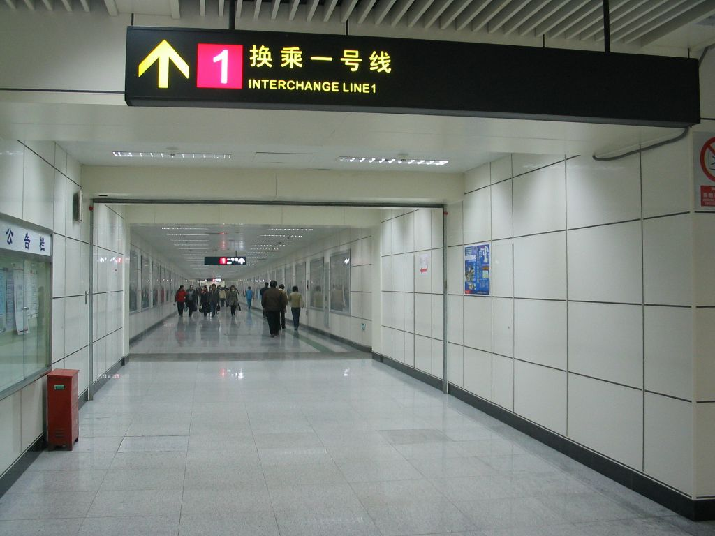 上海南站-3號線大堂-1號線換乘通道 Shanghai South Railway Station (Metro), A Line 1 Interchange Corridor at Line 3 Concourse